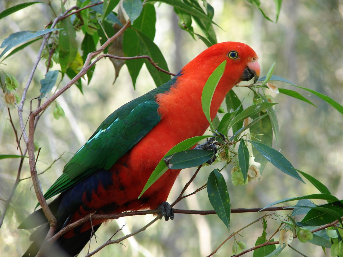 Australian King Parrot (Alisterus scapularis). A male in the wild at mount Coot-tha in Brisbane, Australia.